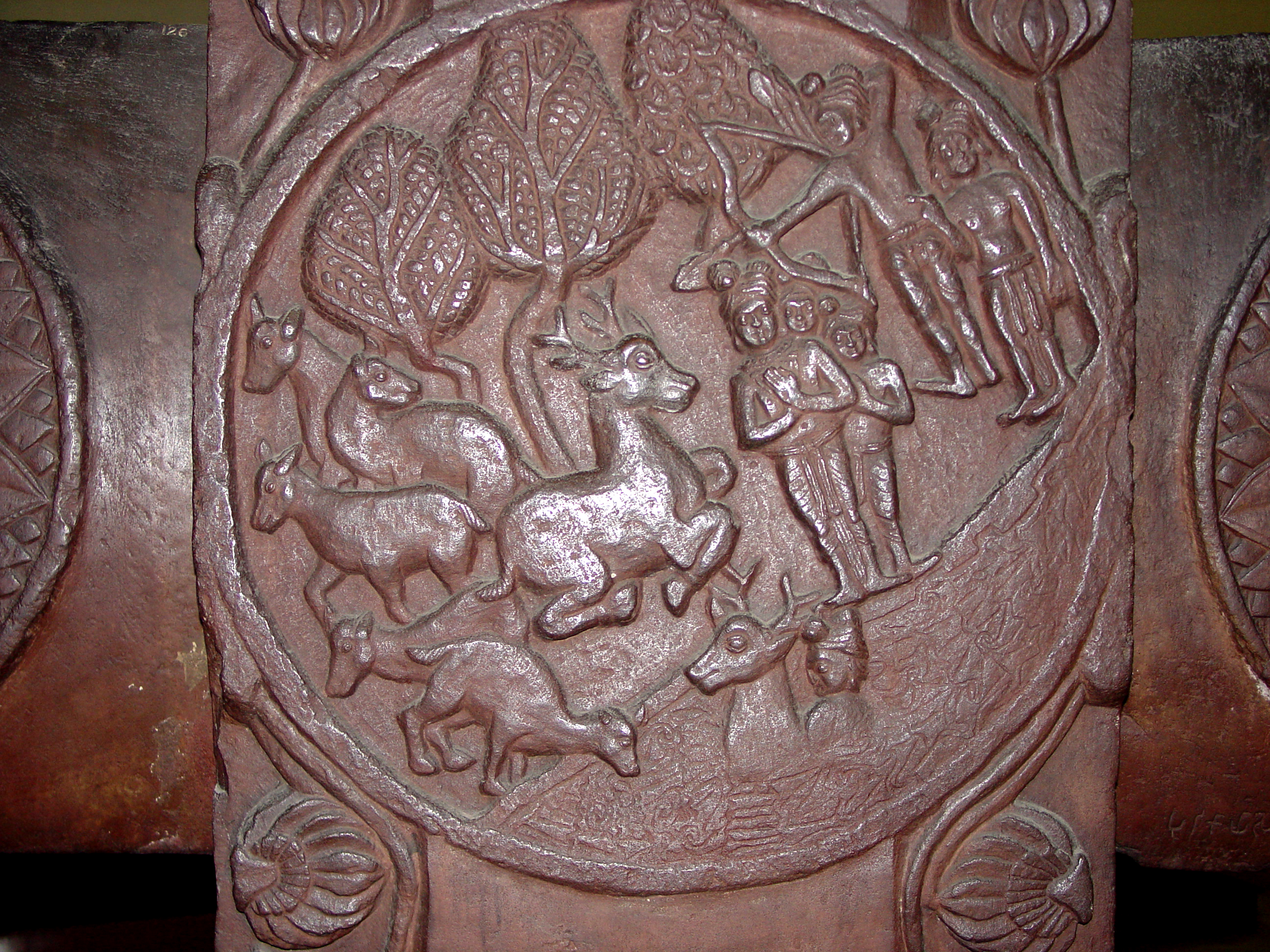 Ruru Jataka. Bharhut, c. 100 BC. Indian Museum, Calcutta Ruru jataka is the story of how the future Buddha, incarnated as a deer, rescues a merchant from drowning in the river (bottom of medallion). In return, the merchant later saves the deer from being shot by a hunter (upper part of medallion). It's not certain why the horizon is "tipped" in this scene; perhaps the artist was just mistakenly following the outline of the river.